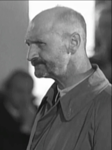 Jakob Schmid, War Crimes Trials: Medical Case; Welt im Film no. 57, Story RG-60.2375, Tape 21